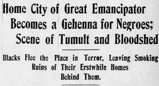 Pittsburgh Daily Post.